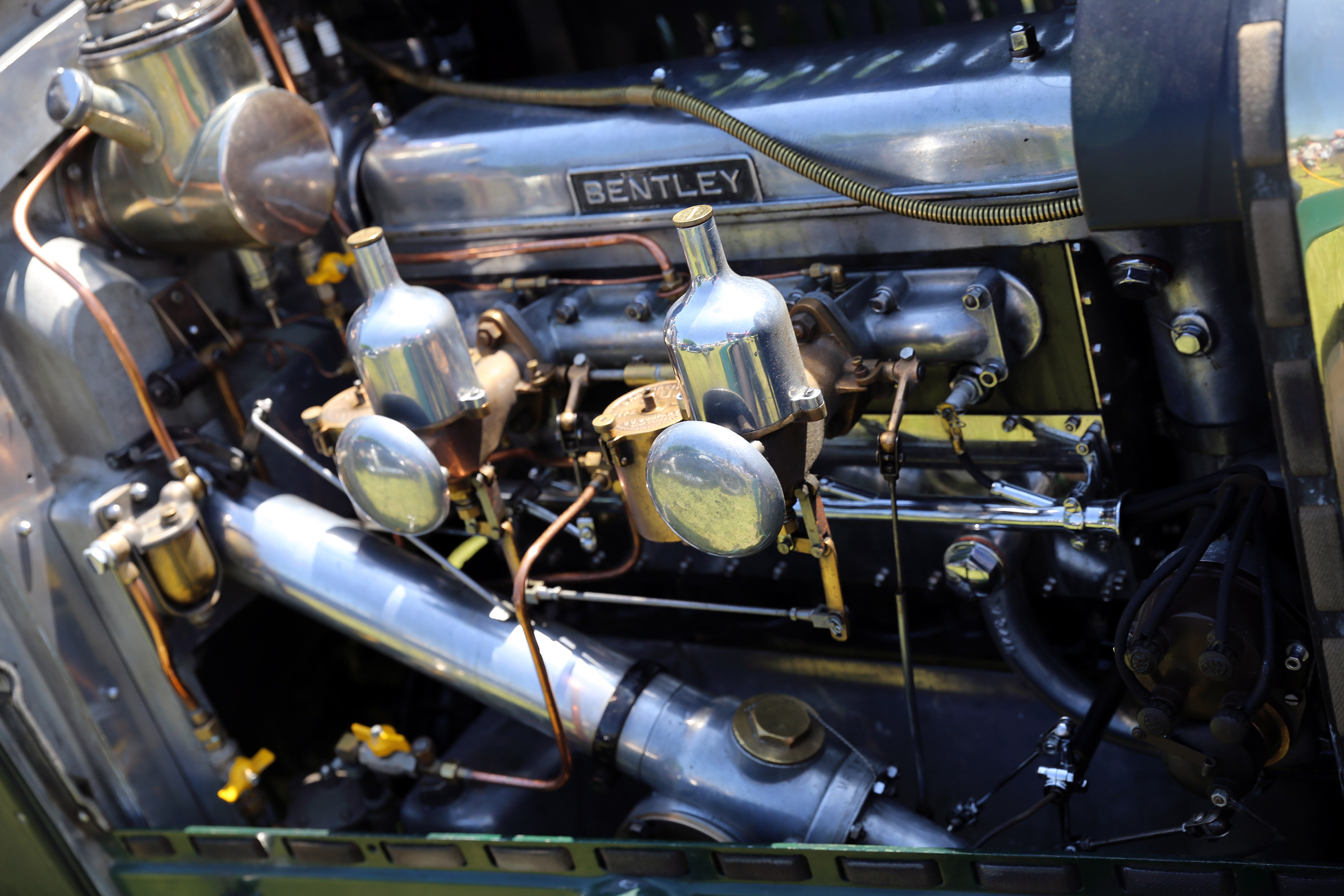 Engine of 1929 Bentley 4½-litre Le Mans Tourer. Seen at the 2013 Greenwich Concours d'Elegance.